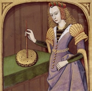 Manto, daughter of Tiresias and mother of Mopsus.